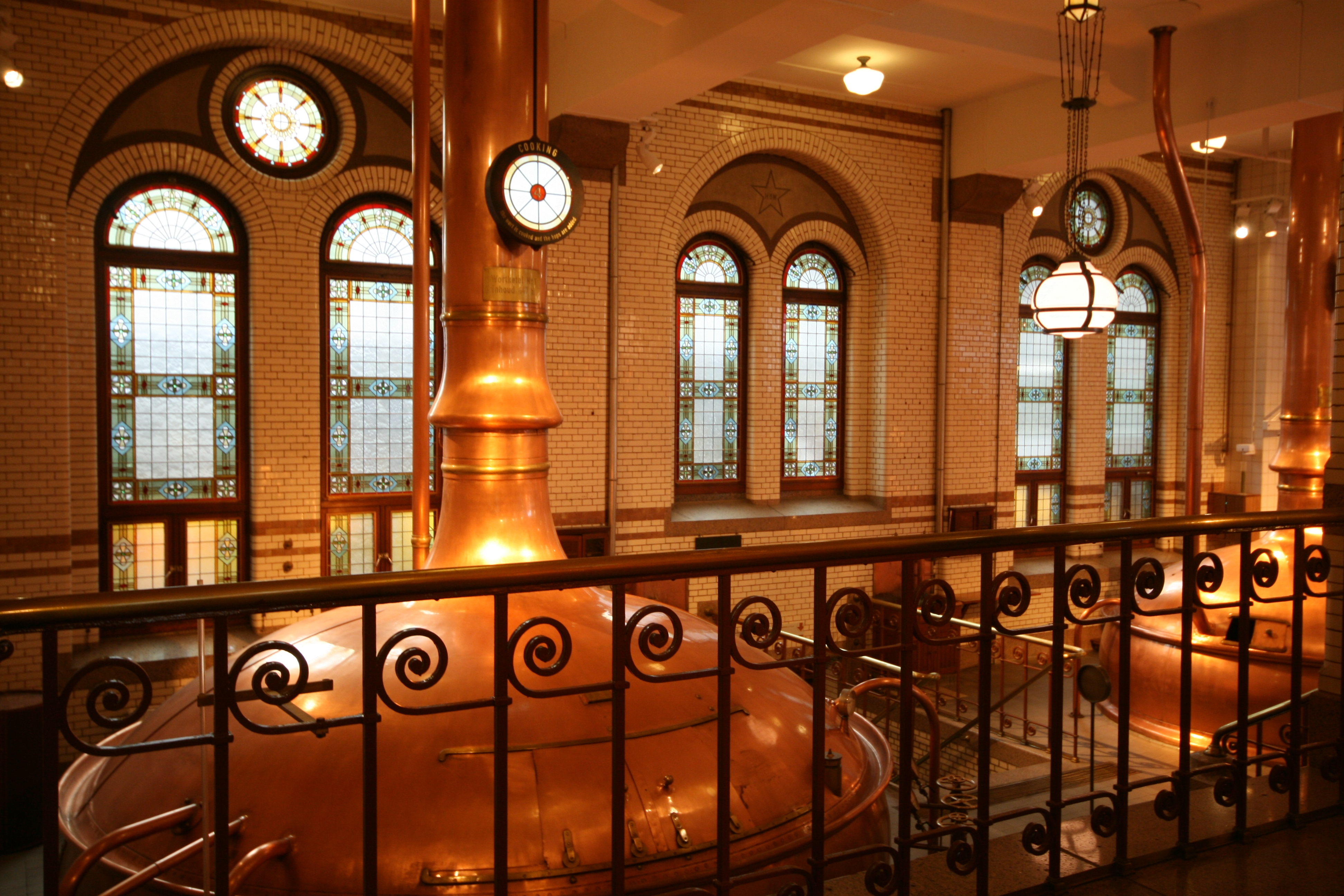 Heineken Brewery Amsterdam